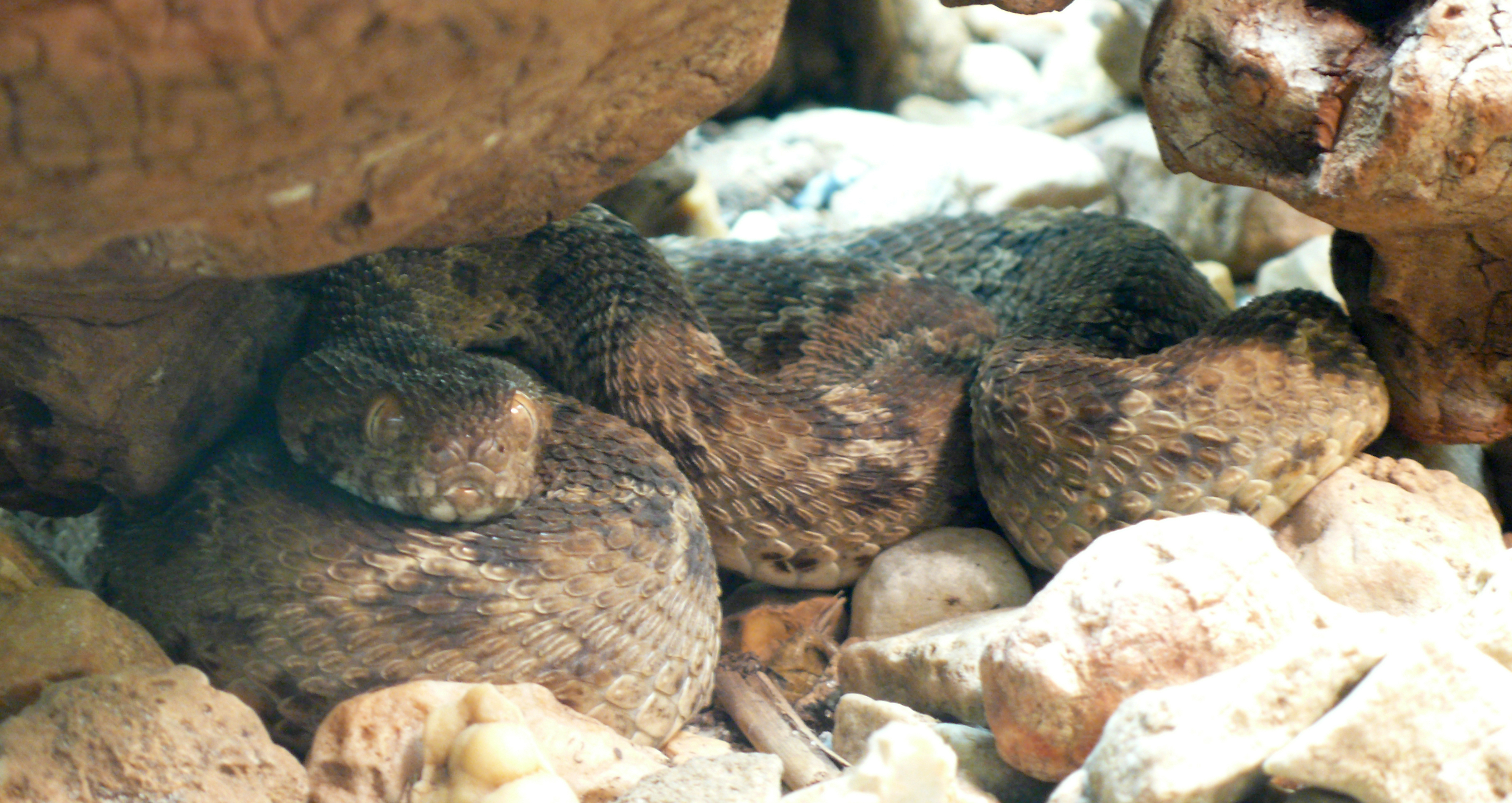 Egyptian saw-scaled viper (Echis pyramidum)